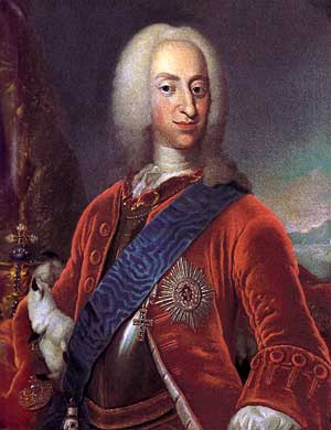 Portrait of Christian VI of Denmark (1699-1746)label QS:Len,"Portrait of Christian VI of Denmark (1699-1746)" label QS:Lla,"Christianus VI Daniæ Norvegiam rex"